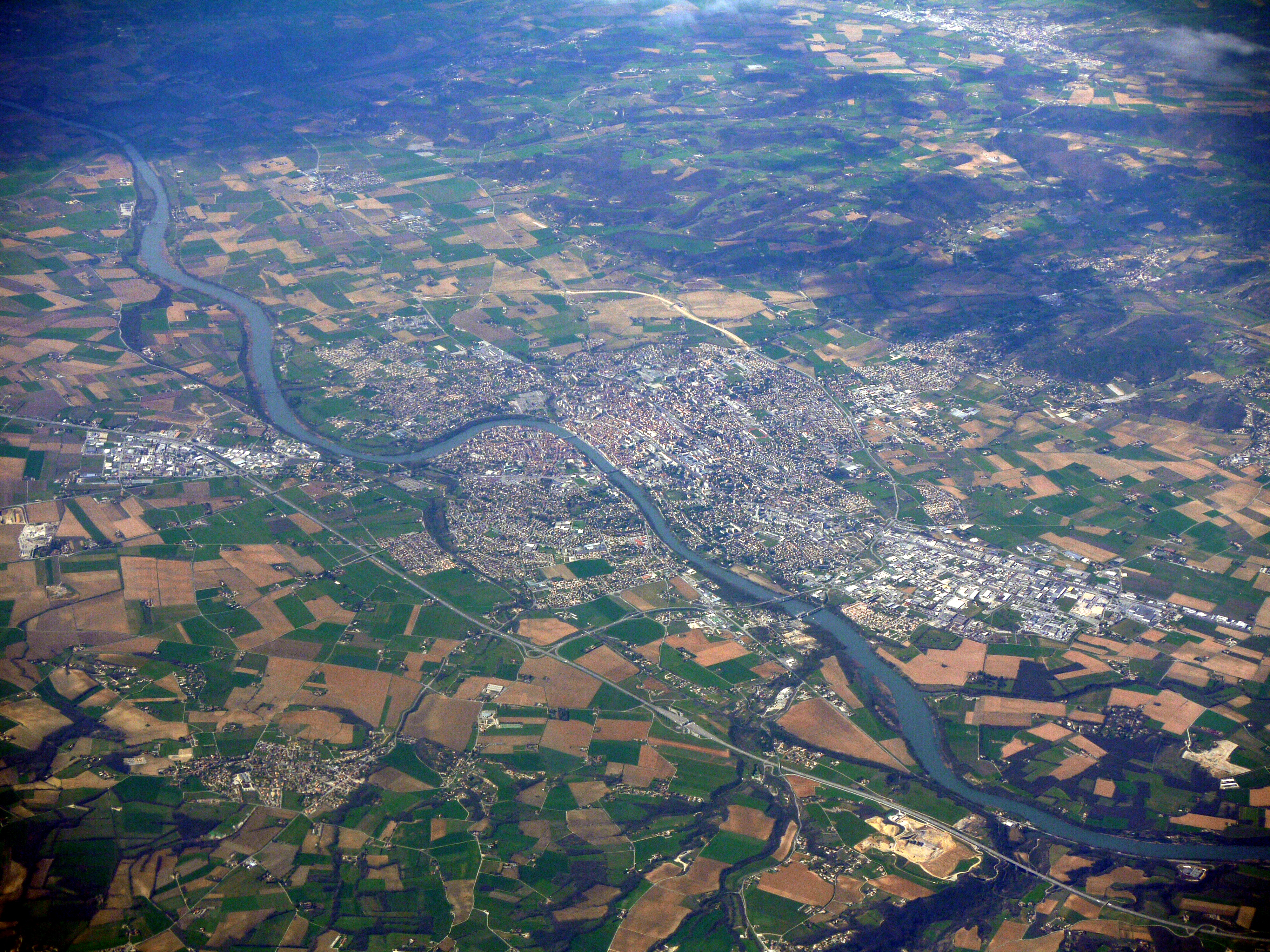 Romans-sur-Isère and Bourg-de-Péage, photograph taken from the sky, on the fly line between Marseille and Stockholm.